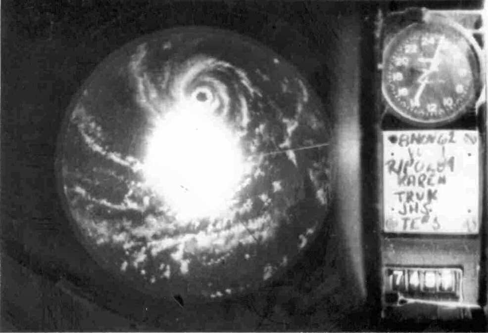 Radar image of Typhoon Karen from a VW-1 aircraft radar camera on November 8, 1962 at 1405 Zulu Time